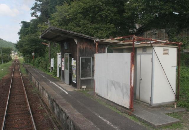 Iibama Station on the TAkechi Railway Akechi Line, in the city of Ina, Gifu Prefecture, Japan